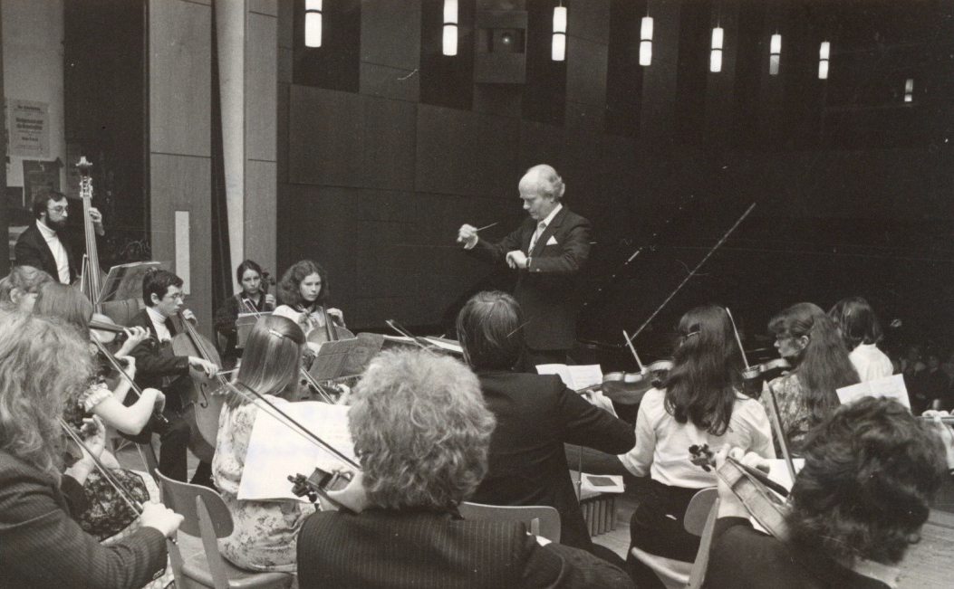 Walter Blankenheim conducting in Meisenheim Deutschland 1983